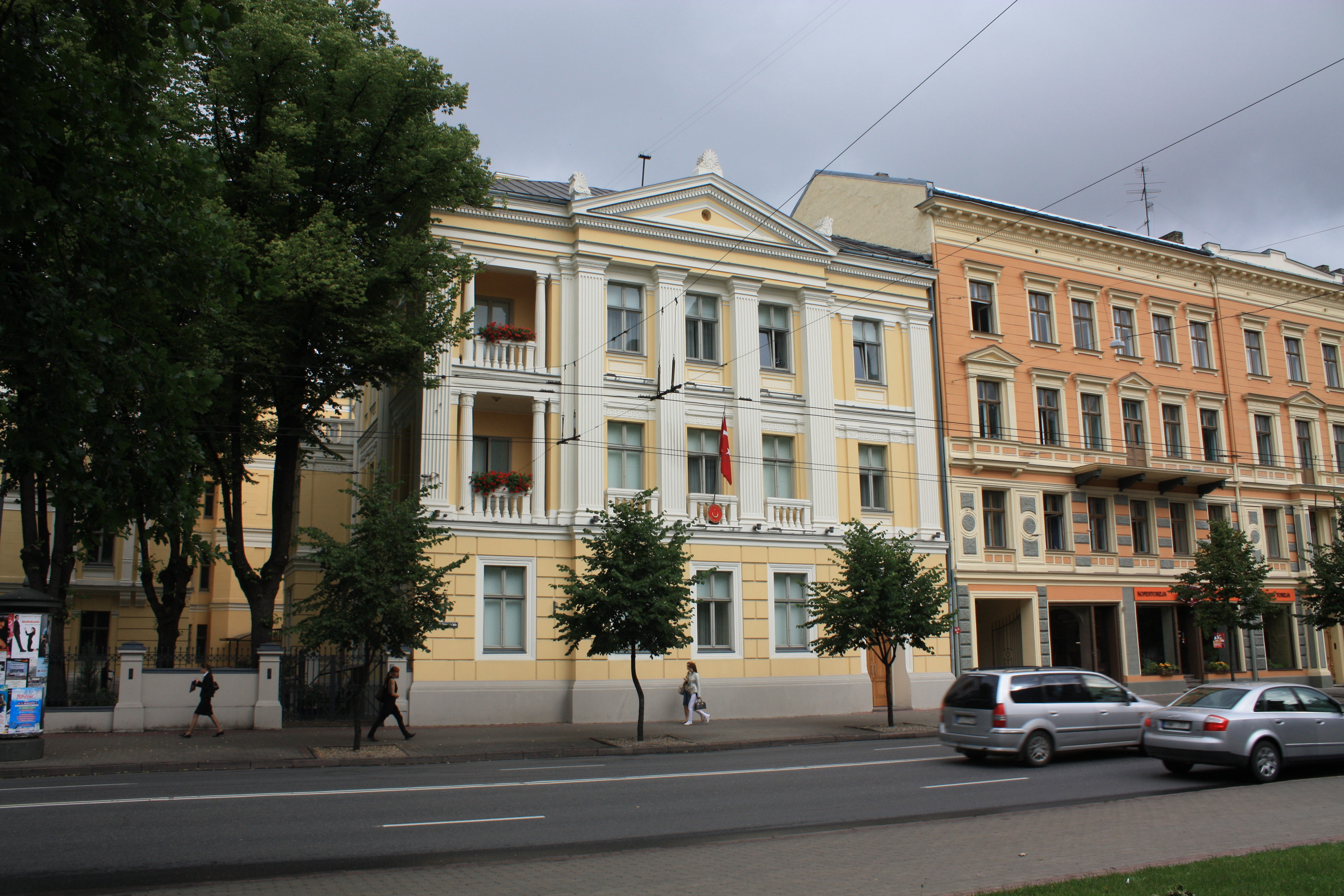 The Embassy of Turkey on K Waldemara iela (street) in Riga